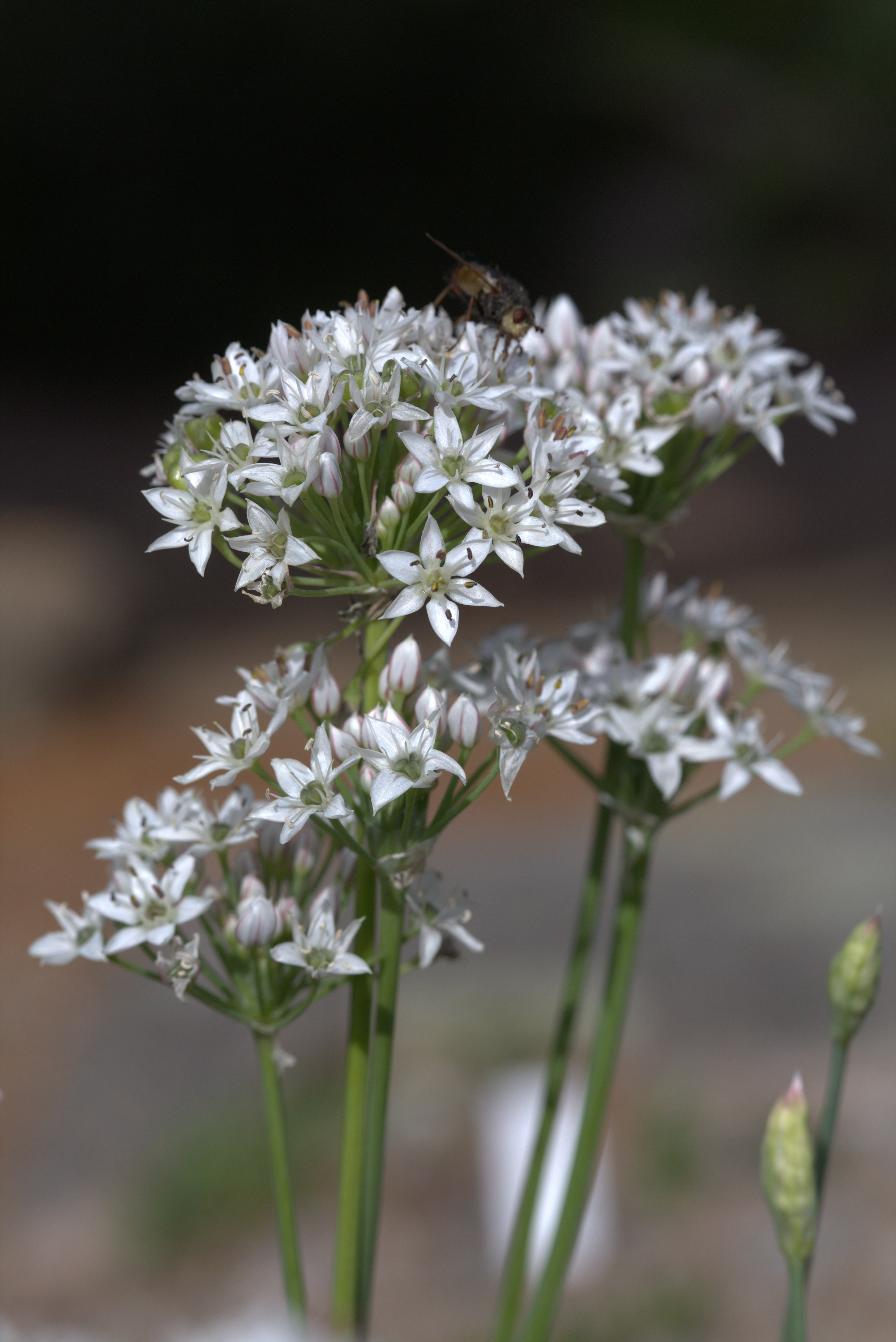 Allium barsczewskii in Gothenburg Botanical Garden. Plant id: 2007-375 s Z -- GBT/Pak. SEP 005